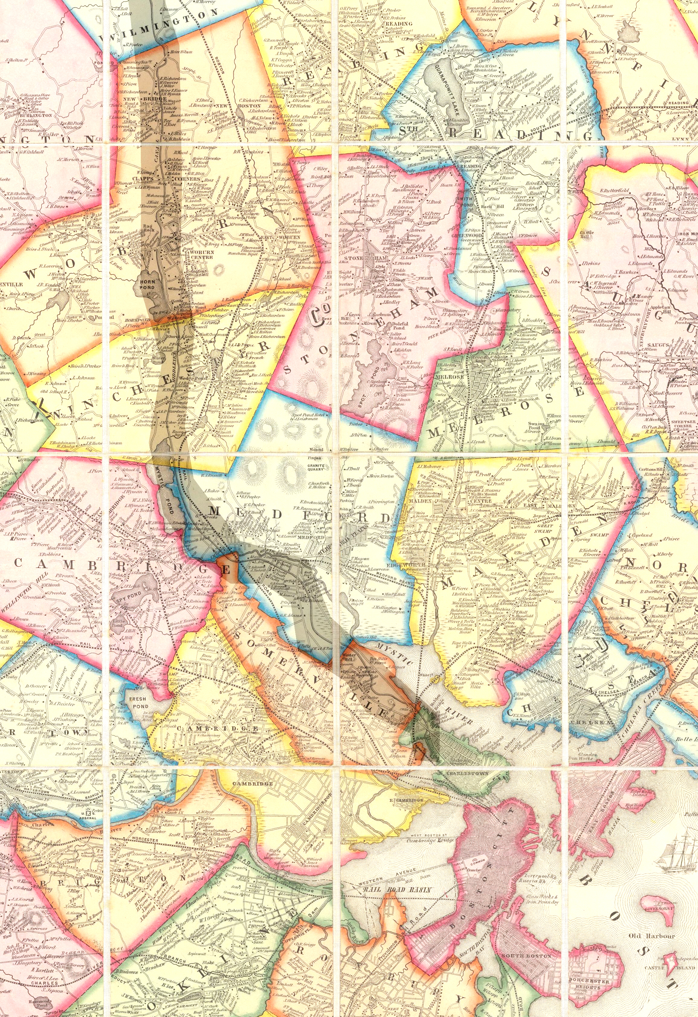 Map of the lower stretch of the Middlesex Canal, north of Boston, Massachusetts, 1852. This map was made about the time the canal was abandoned, some 50 years after its construction was completed.